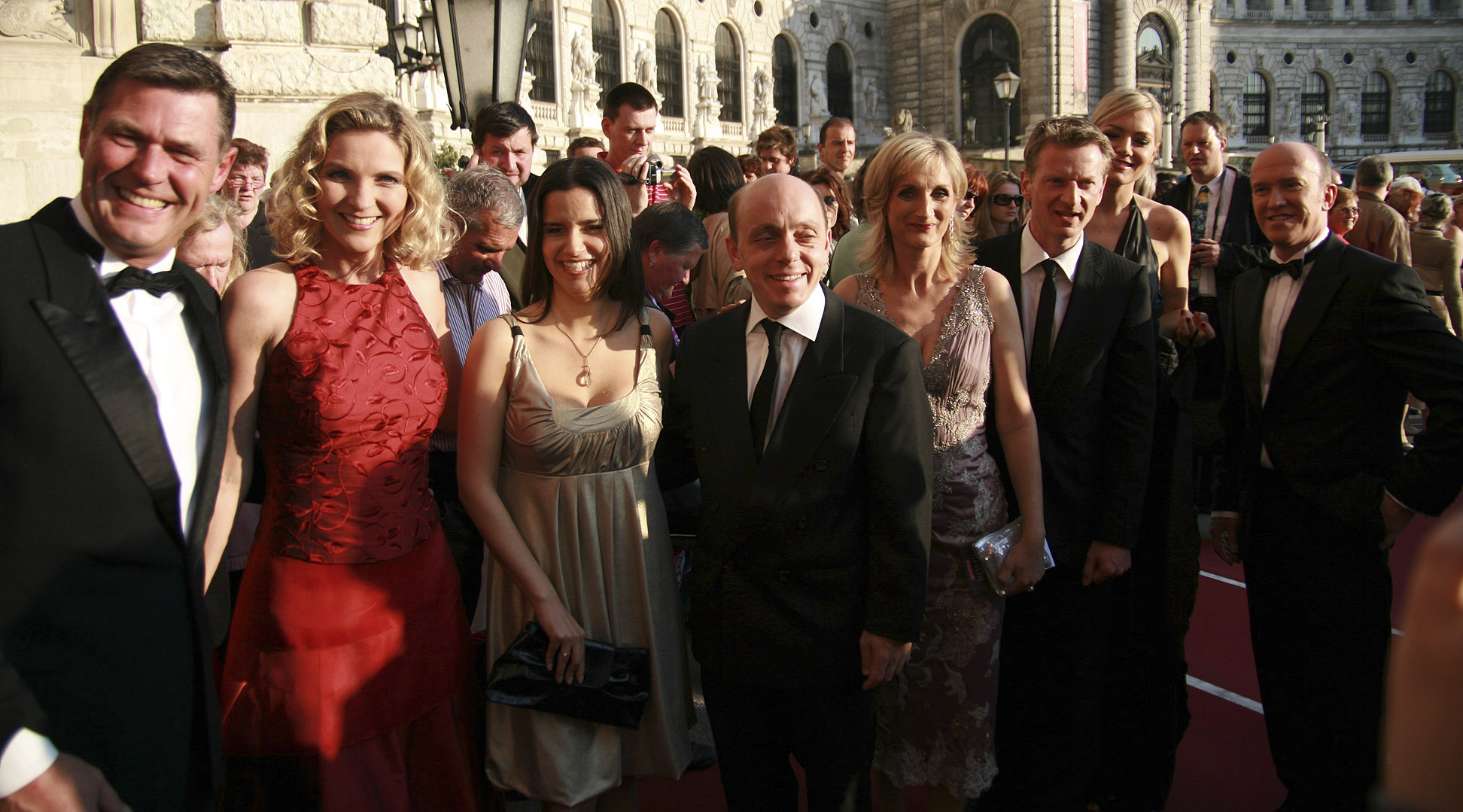 Michael Müller, Susanne Pätzold, Mona Sharma, Bernhard Hoëcker, Petra Nadolny, Michael Kessler, Martina Hill and Peter Nottmeier at the Romy TV awards (Hofburg Imperial Palace in Vienna)